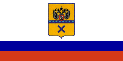 Flag of Orenburg (1998—2012), Orenburg oblast, Russia